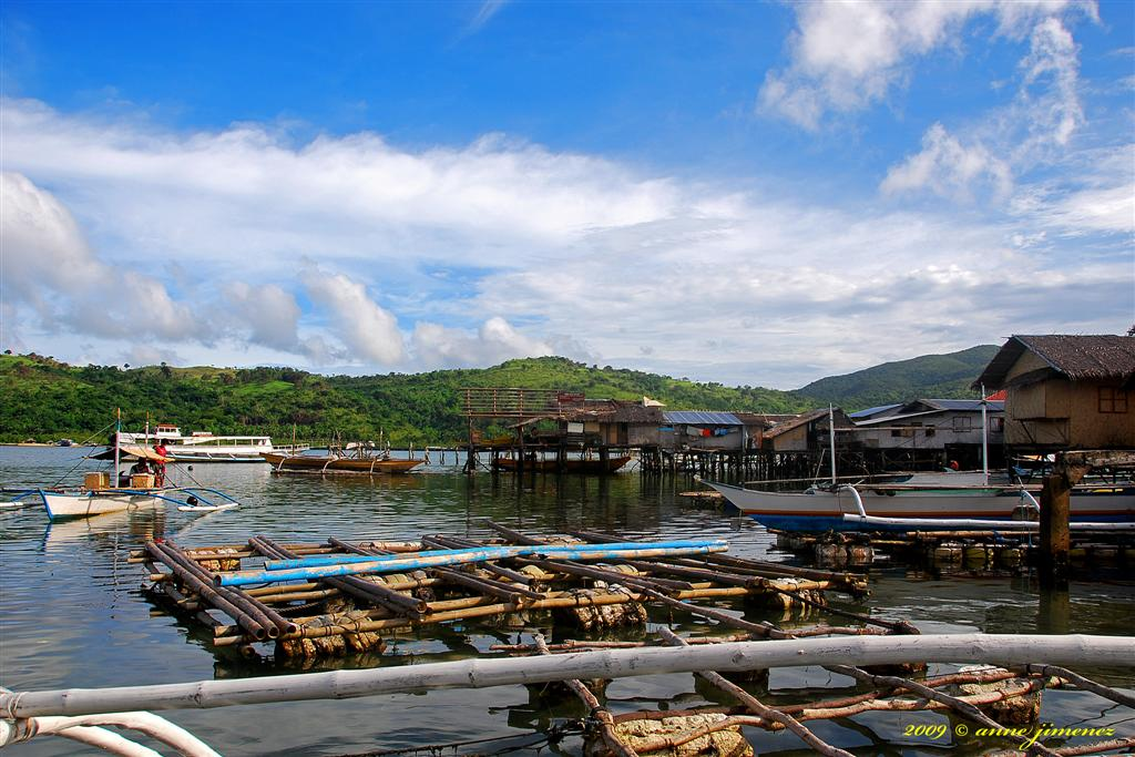 Culion harbour, Calamian islands (Palawan)